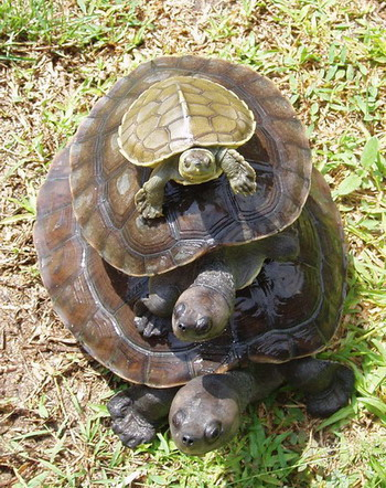 River terrapins (Batagur baska). Image was also uploaded to